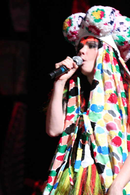 Björk, Coachella Day 1, Photo by Paul Familetti